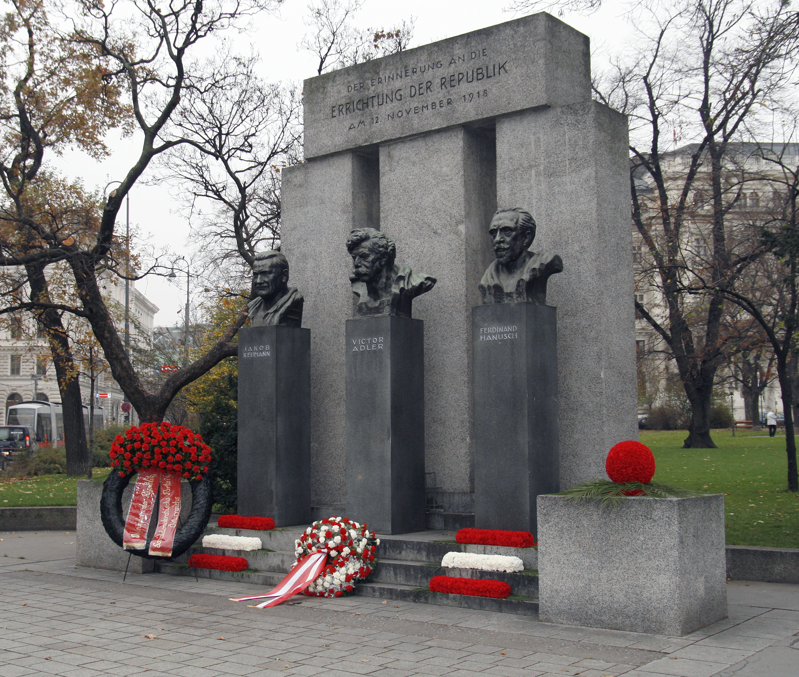 The Republikdenkmal (Memorial of the Republic) in Vienna.